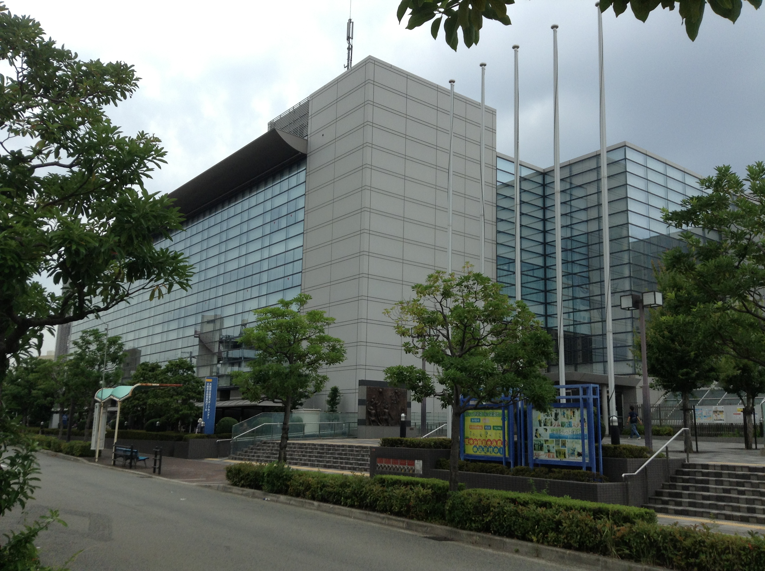 Osaka Municipal Sumiyoshi Sports Center.